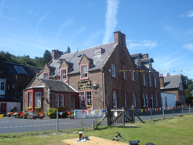 Corrie Hotel ,Isle of Arran. Popular with Summer visitors and Geology students